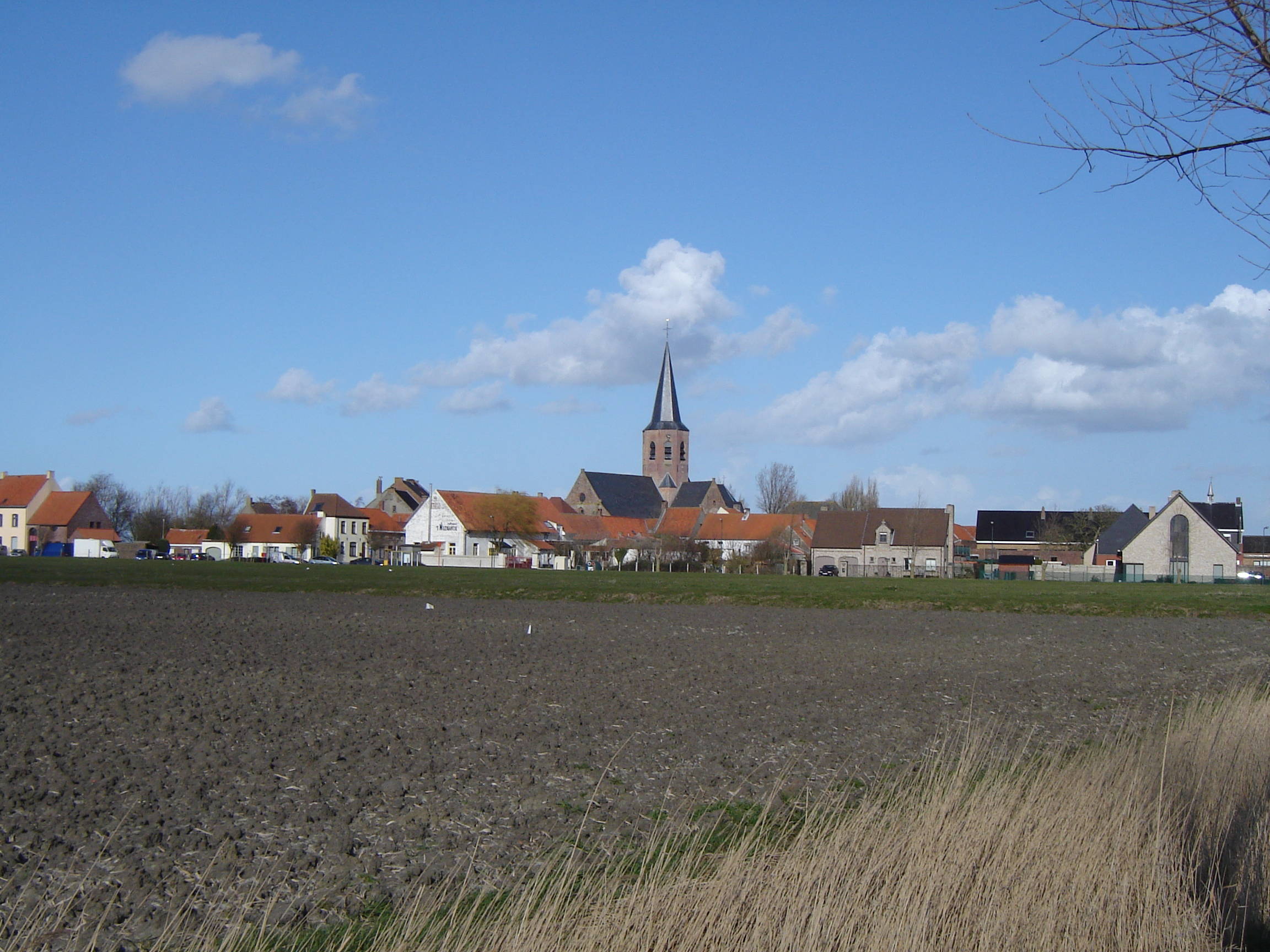 View on the village of Houtave, Zuienkerke, West Flanders, Belgium